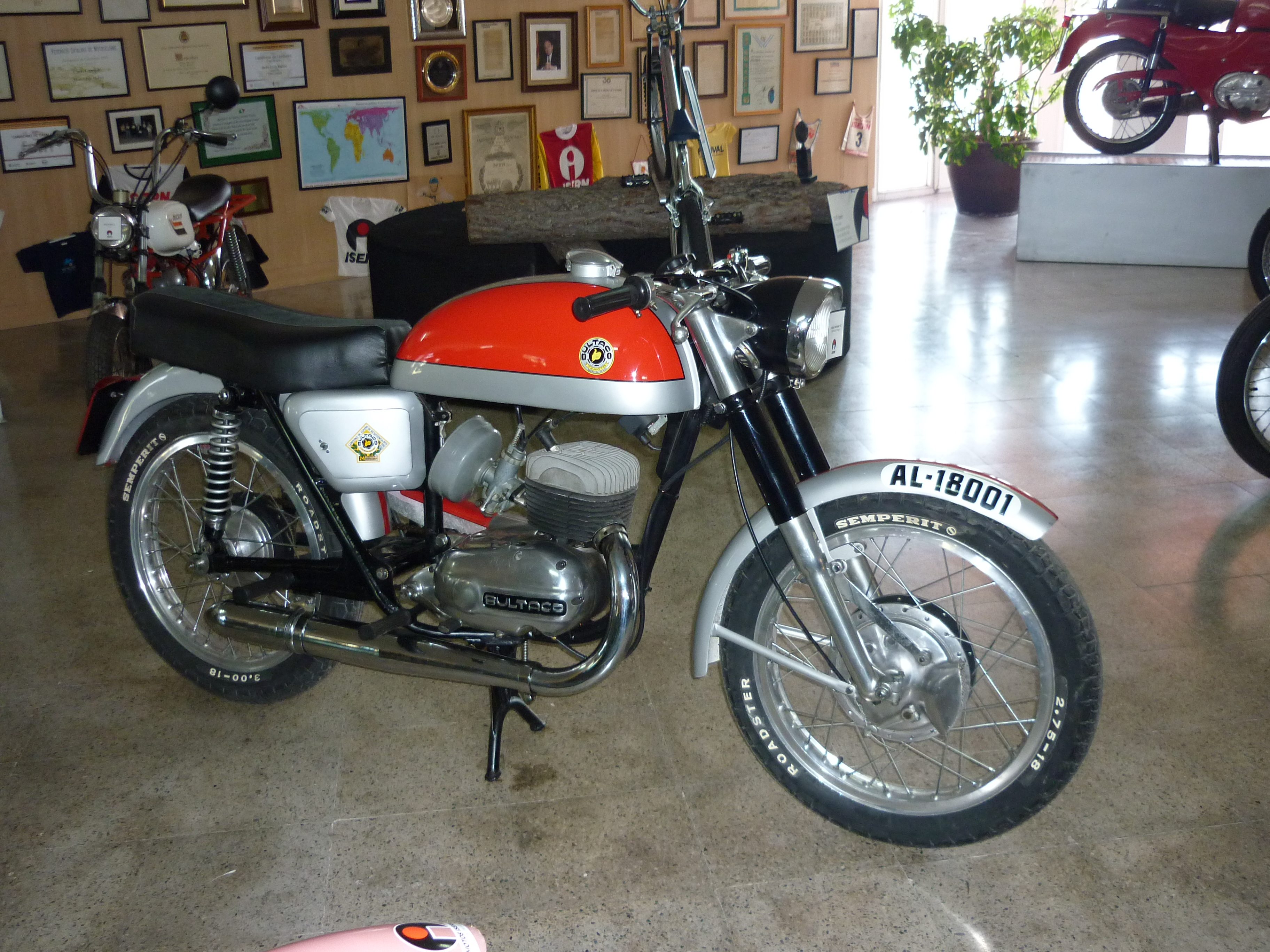 Bultaco Tralla 102 125cc (1963 - 1971). Isern Motorcycle Museum, Mollet del Vallès (Catalonia).